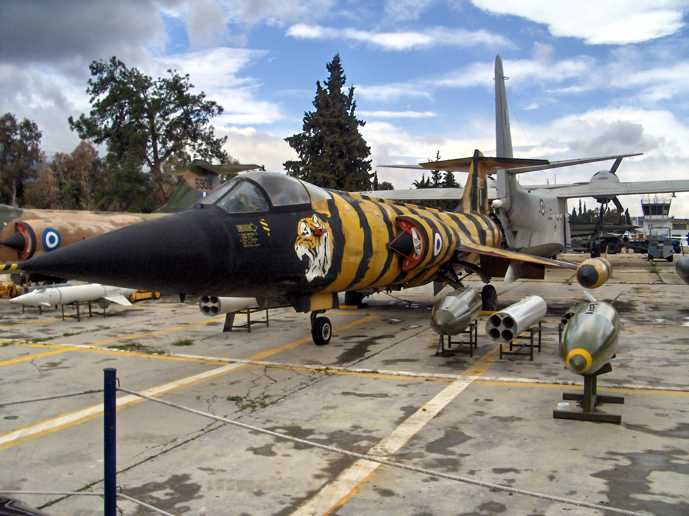 F-104G Starfighter (FG-7151) painted in anniversary scheme "Tiger".